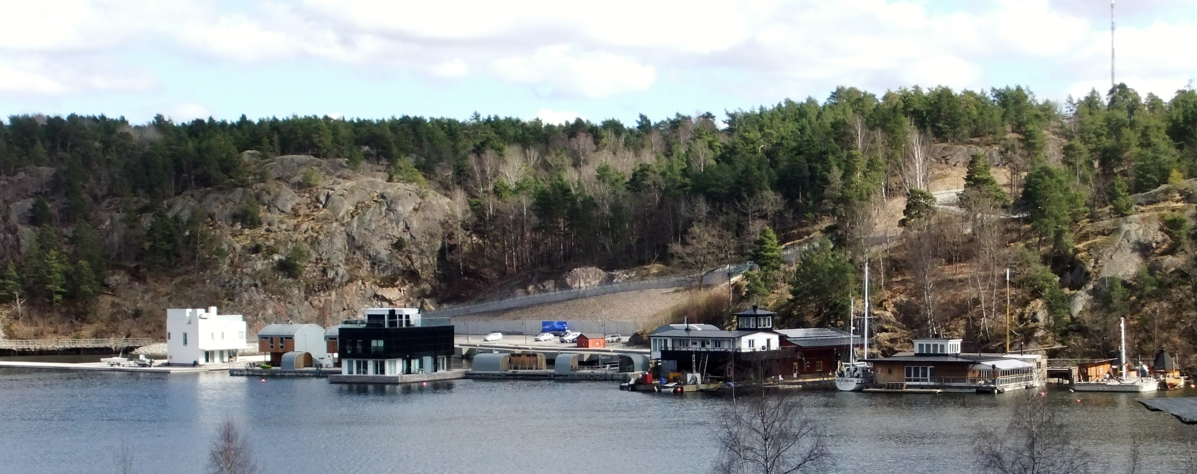 Group of floating houses